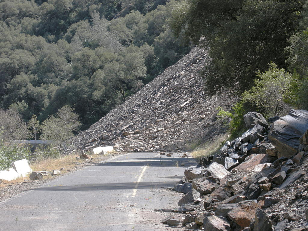 Ferguson Slide on California State Highway 140 along the Merced River